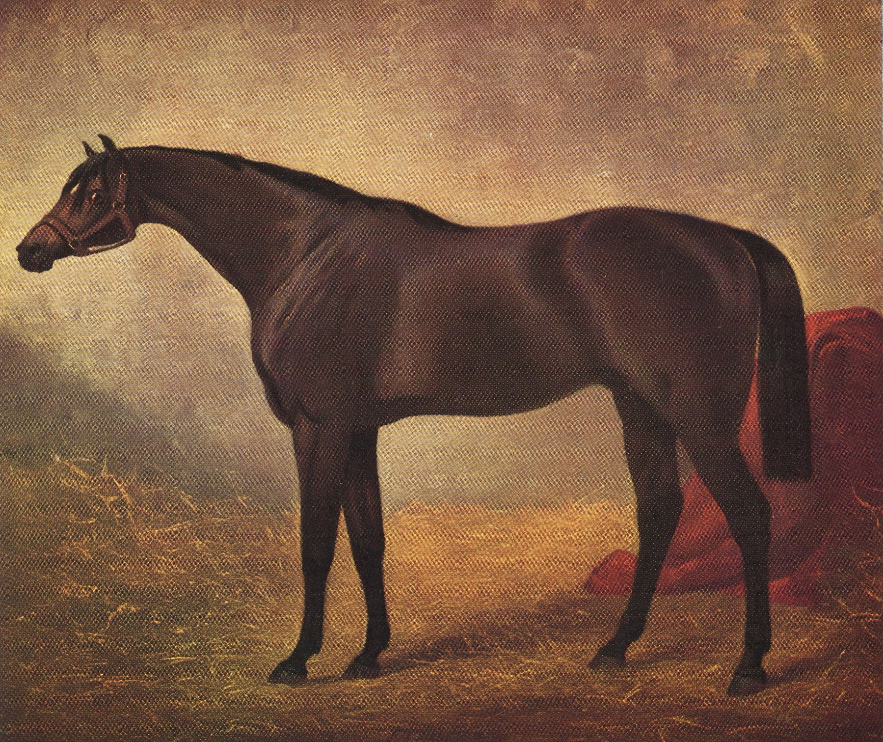 Fisherman (GB) (1853) by Heron from Mainbrace. He won 69 races including the Ascot Gold Cup twice and was an outstanding sire in Australia.